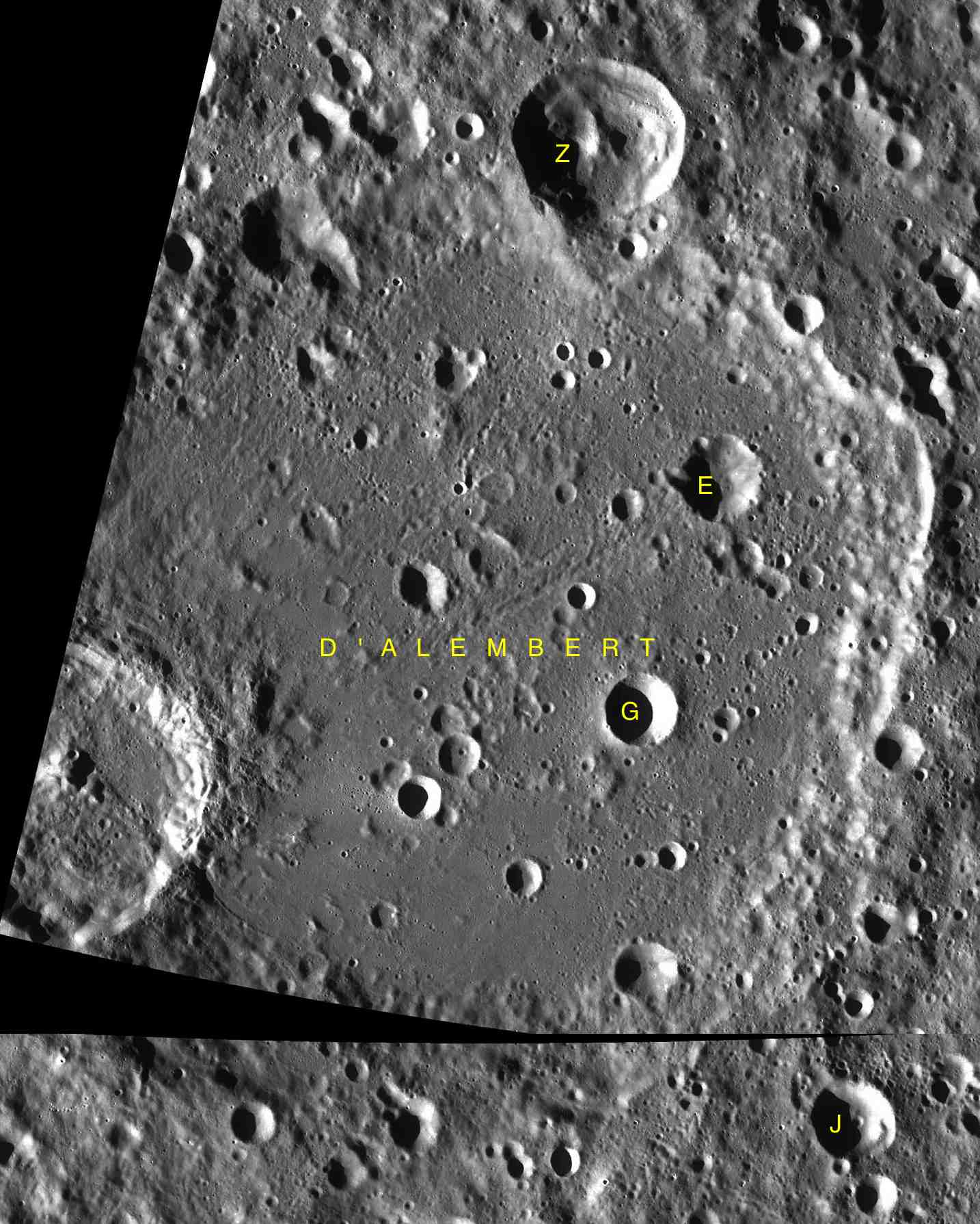 Parts of the charts LAC-18, LAC-32 used for the presentation